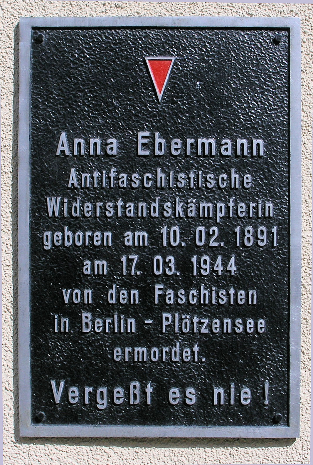 Memorial plaque, Anna Ebermann, Gürtelstraße 11, Berlin-Weißensee, Germany